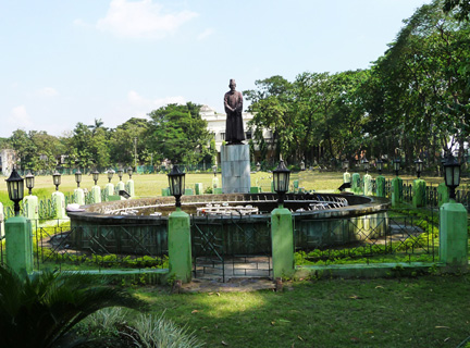 Rabindra Bharati University's Emerald Bower Campus Entrance